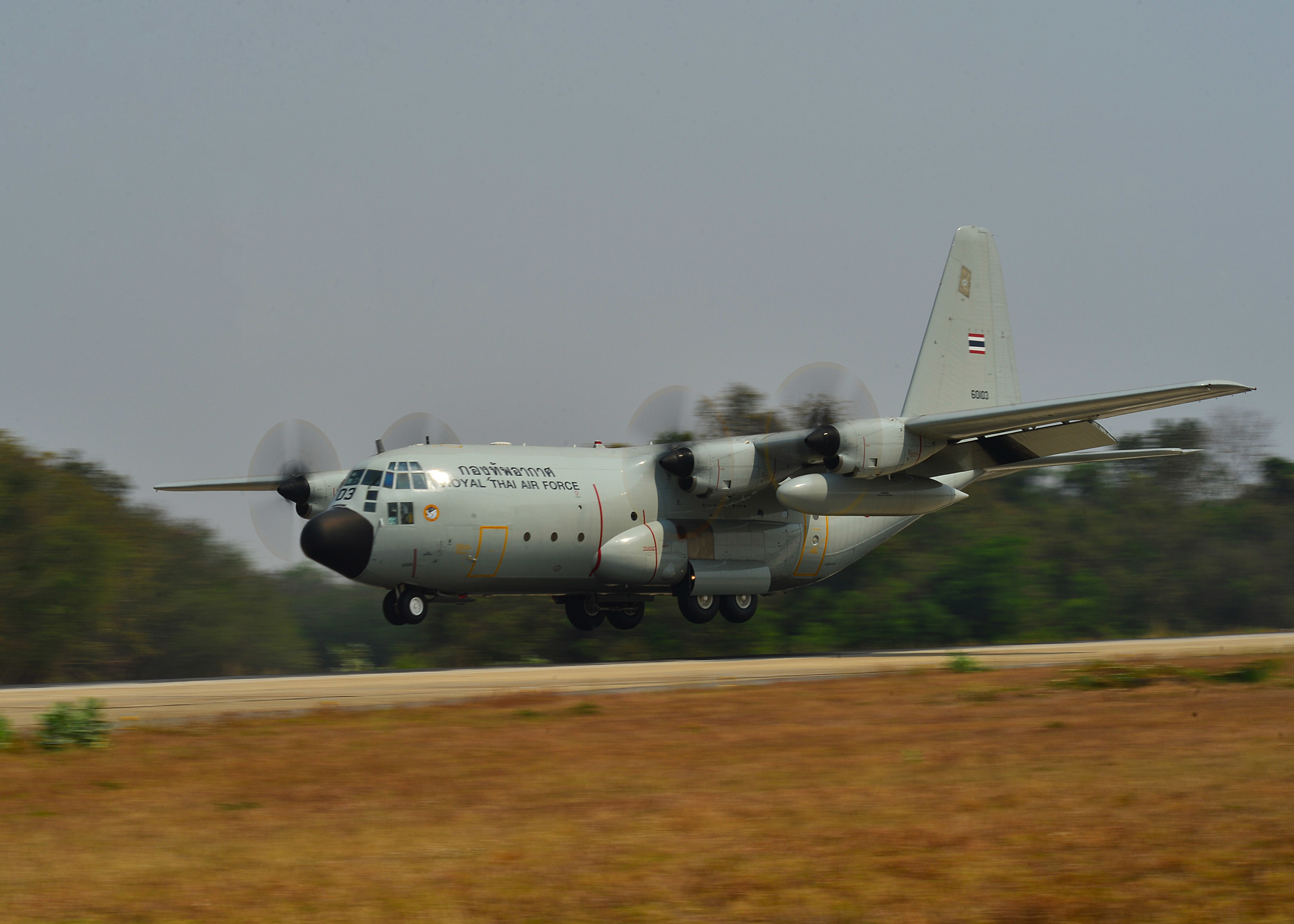 A C-130 Hercules, from the Royal Thailand Air Force, lands during Exercise Cope Tiger 16, on Korat Royal Thai Air Force Base, Thailand, March 11, 2016. Exercise Cope Tiger 16 includes over 1,200 personnel from three countries and continues the growth of strong, interoperable and beneficial relationships within the Asia-Pacific Region, while demonstrating U.S. capability to project forces strategically in a combined, joint environment. (U.S. Air Force Photo by Tech Sgt. Aaron Oelrich/Released)